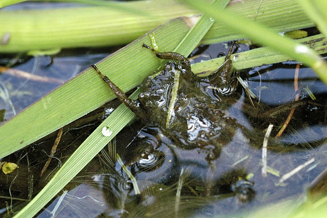 Picture taken in Commanster, Belgian High Ardennes . Species: Libellula depressa nymph